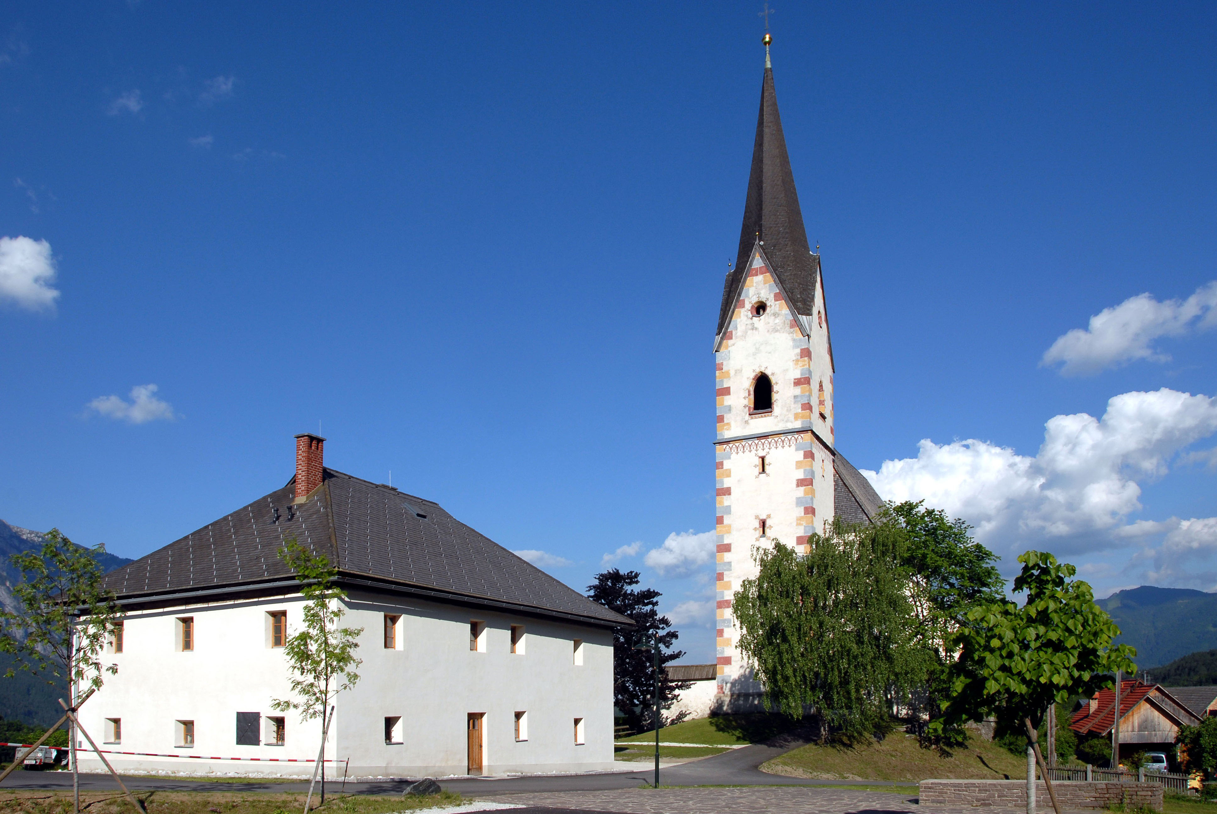 Roman Catholic rectory and parish church of the Blessed Virgin Mary in Göriach #1, municipality Hohenthurn, district Villach Land, Carinthia, Austria, EU